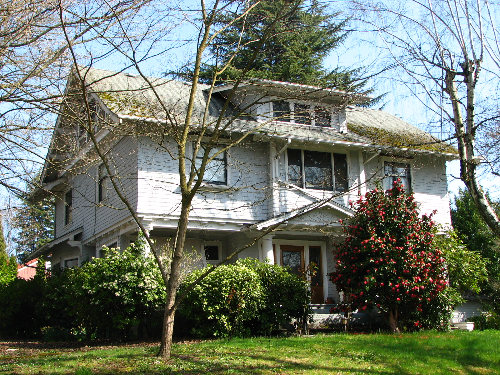 The historic Elizabeth B. Gowanlock House (built 1908), located at 808 Southeast 28th Avenue in Portland, Oregon, United States, is listed on the US National Register of Historic Places.